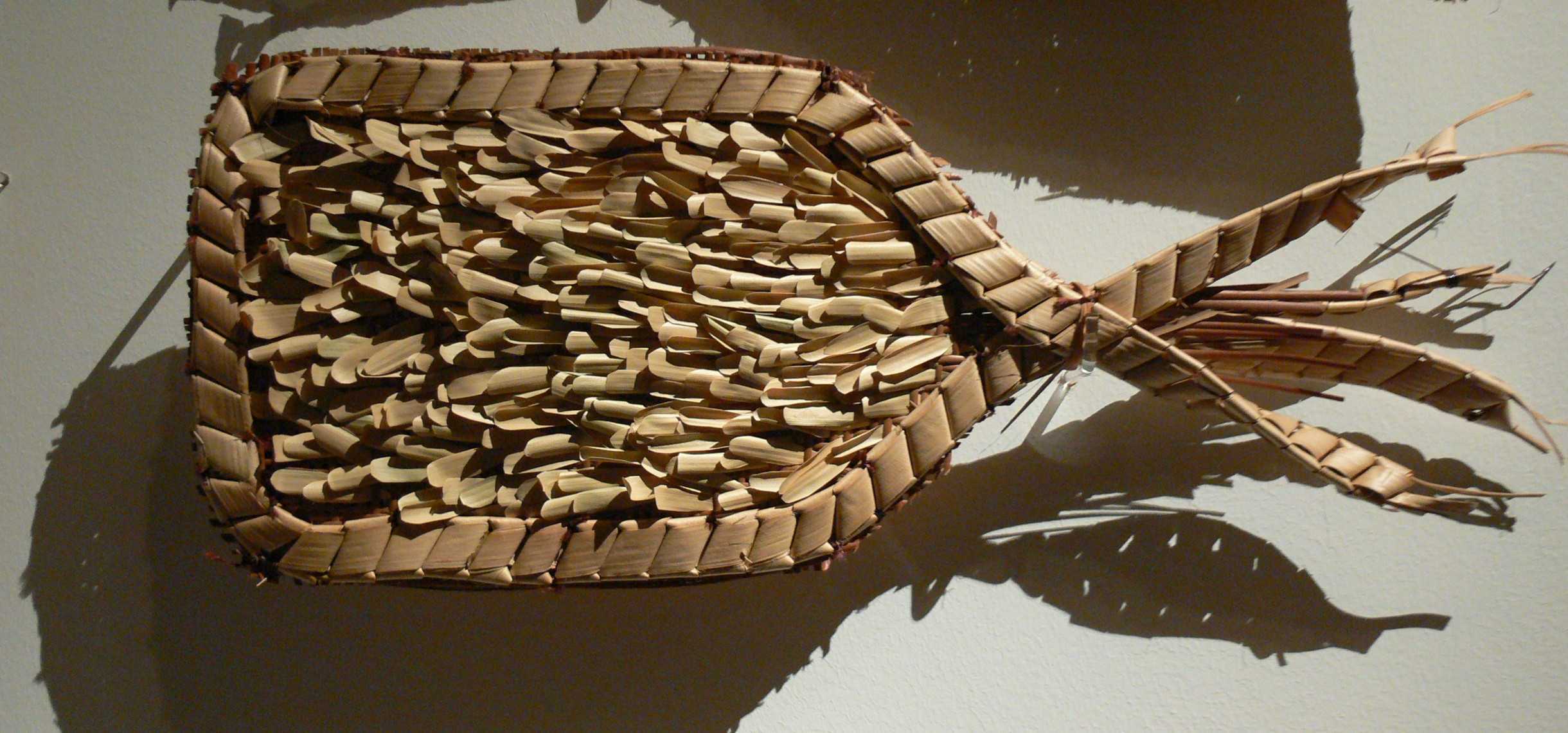 Museum of Ethnology (Vienna). Exhibition "Beyond Brazil": Glove made of palm leaves ( 21st century ), used for initiation rituals of the Sataré-Mawé people, Brazil.